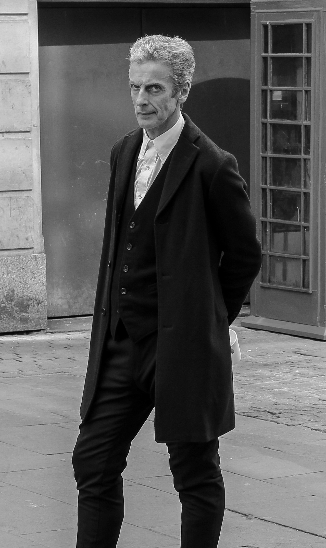 I walked into the middle of the Doctor Who (season 8) filming in the centre of Cardiff in June 2014. I believe Doctor Who is a BBC Cardiff/Wales production. As I walked past the Doctor himself, he was staring right into my eyes and I caught this shot - completely unexpectedly!The three cast members pictured to the right are (from left) Michelle Gomez, Ingrid Oliver and Jemma Redgrave.